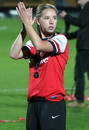 Jordan Nobbs won the medal with Arsenal after the Continental Cup final 2012 match against Birmingham at Underhill stadium.